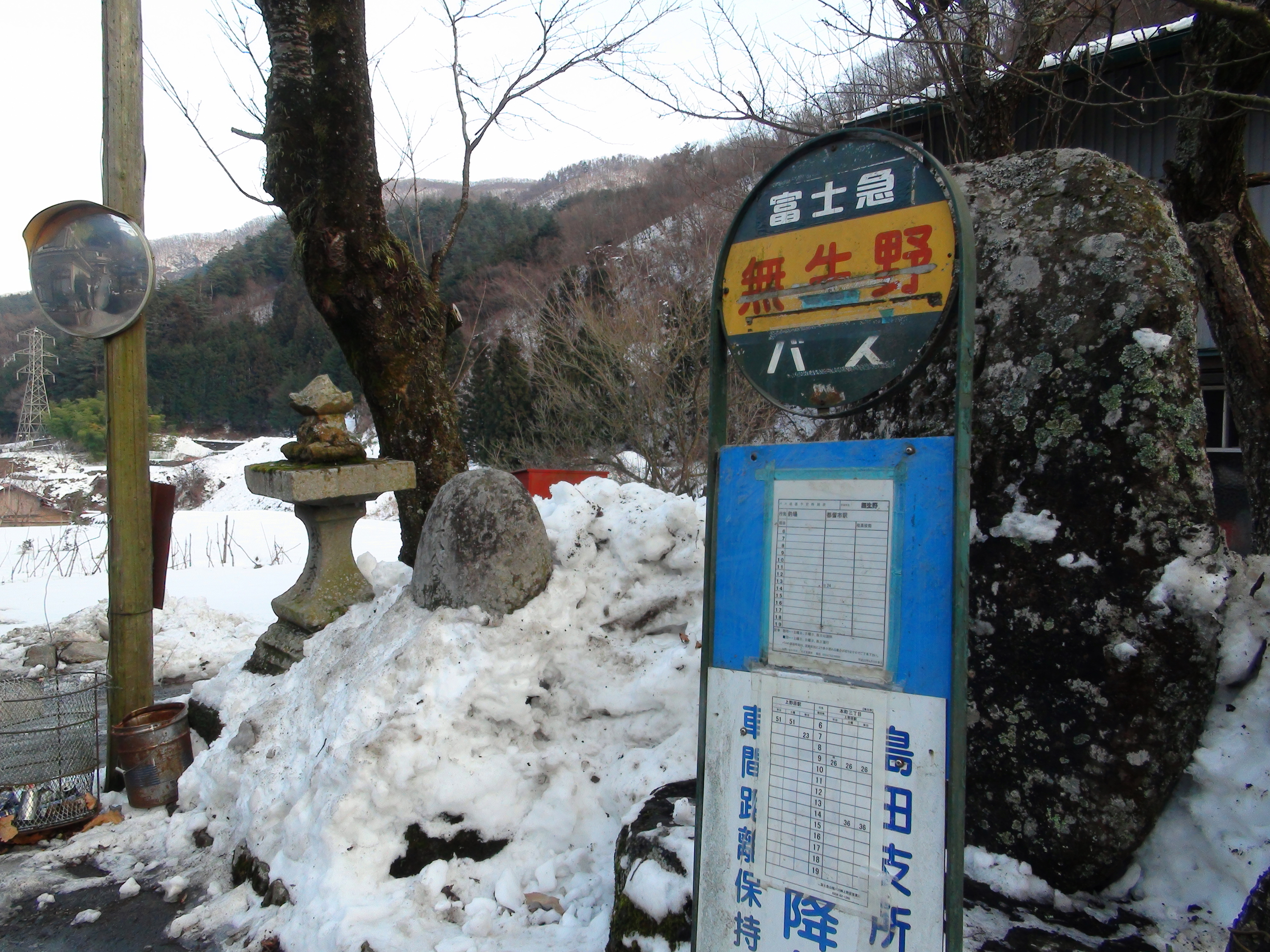 Fujikyu Yamanashi Bus Mushono Bus Stop in Uenohara City, Yamanashi Prefecture, Japan